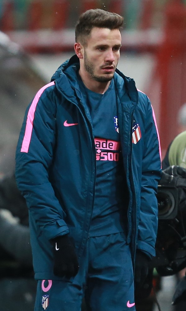 Saúl Ñíguez